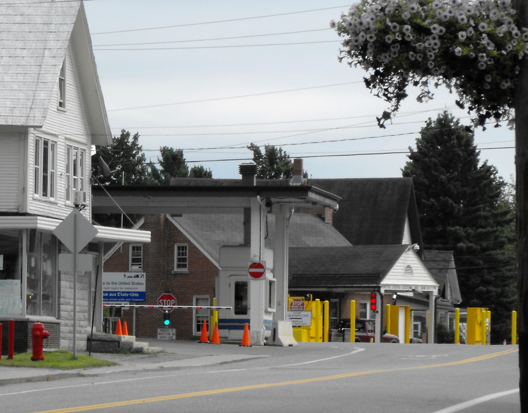 International border between Beebe Quebec and Beebe Plains Vermont